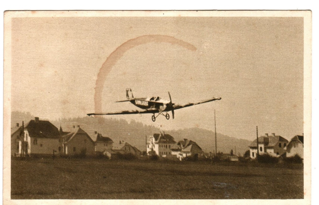 Postcard of Ljubljana Šiška Airport (old)